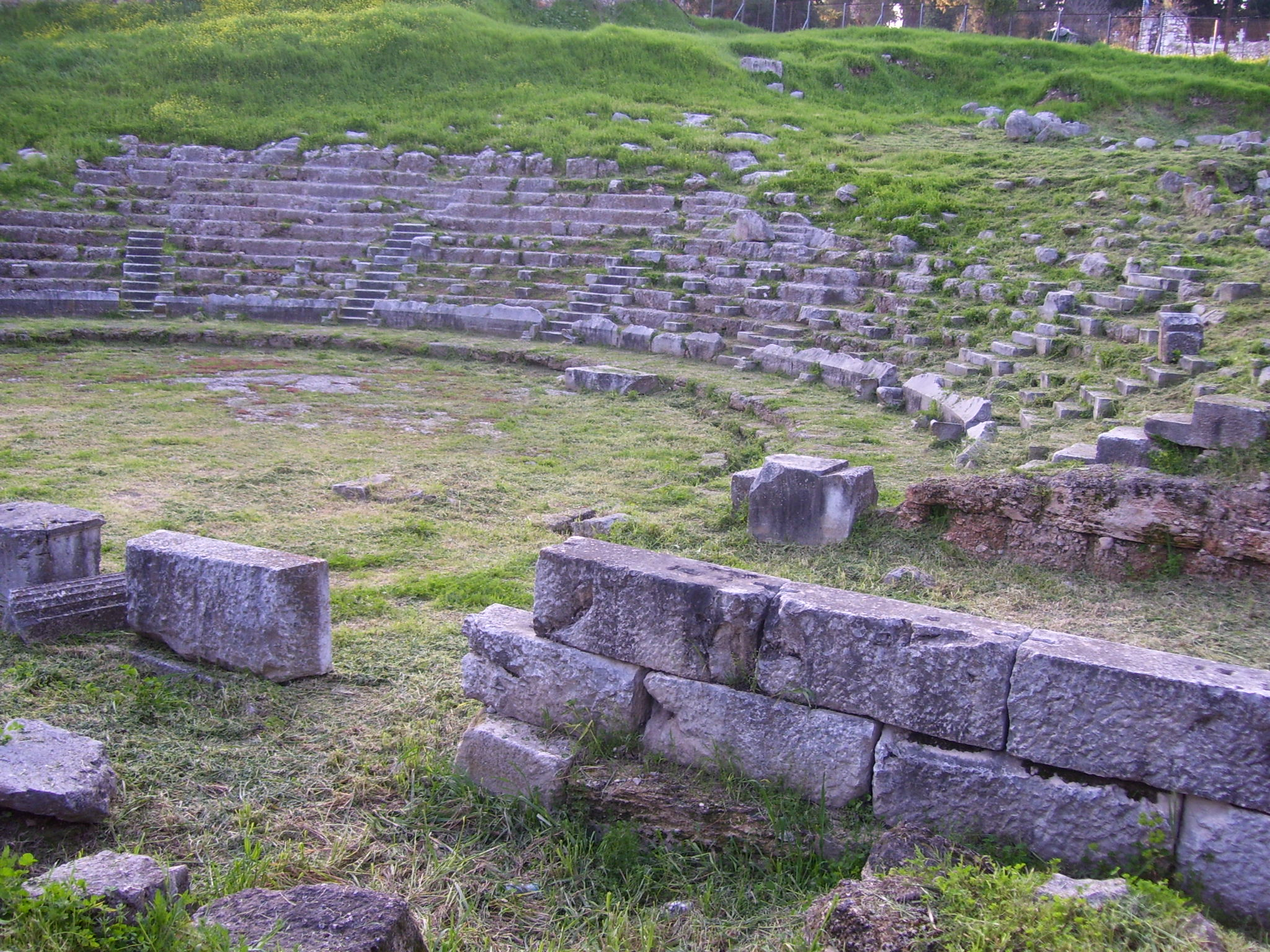 Ancient Theatre of Orchomenos, Boeotia